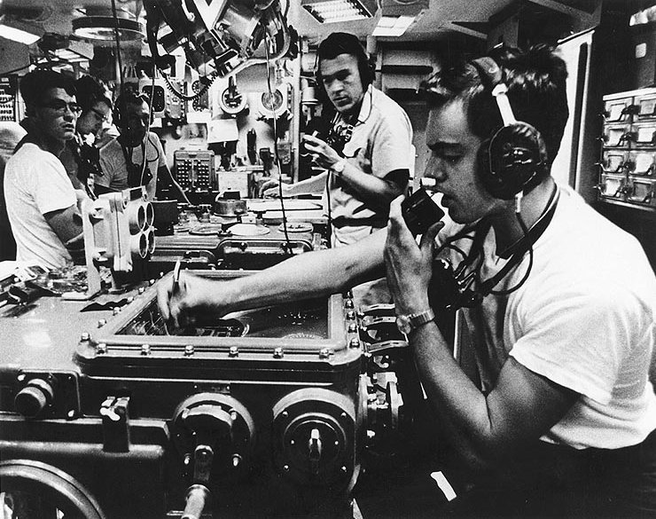 U.S. Navy crewmen in the Main Battery Plot of the guided missile cruiser USS Canberra (CAG-2) work to obtain firing solutions from the ship's fire control computers, during bombardment operations off Vietnam, in March 1967.